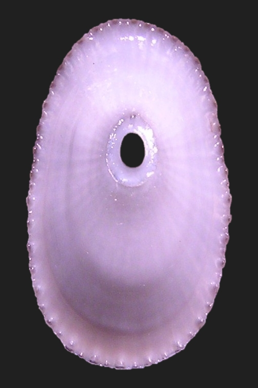 Lucapina suffusa Reeve, 1850, a keyhole limpet from the family Fissurellidae; Dominican Republic